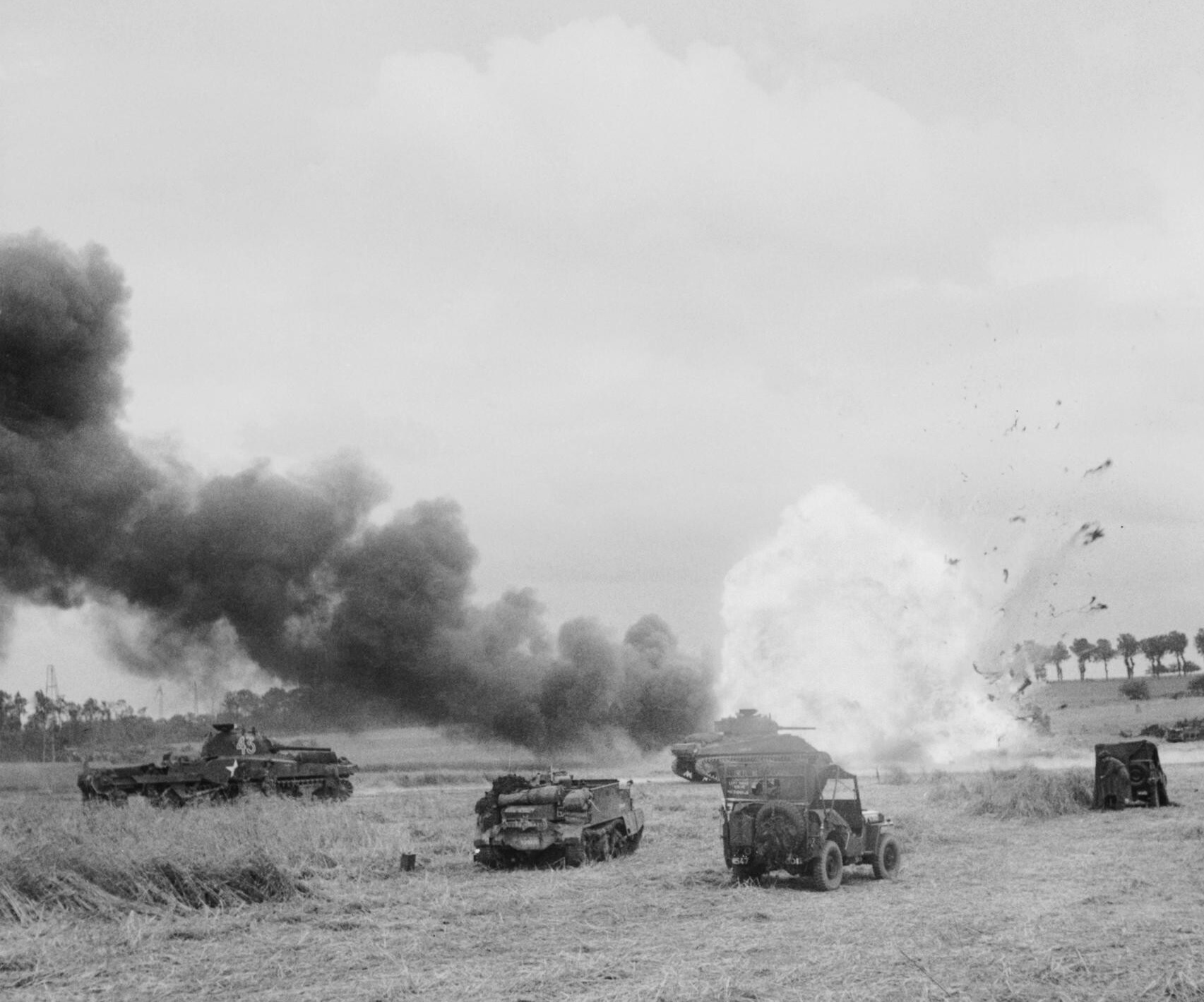 IWM caption : THE BRITISH ARMY IN THE NORMANDY CAMPAIGN 1944. An ammunition lorry of 11th Armoured Division explodes after being hit by mortar fire during Operation 'Epsom'